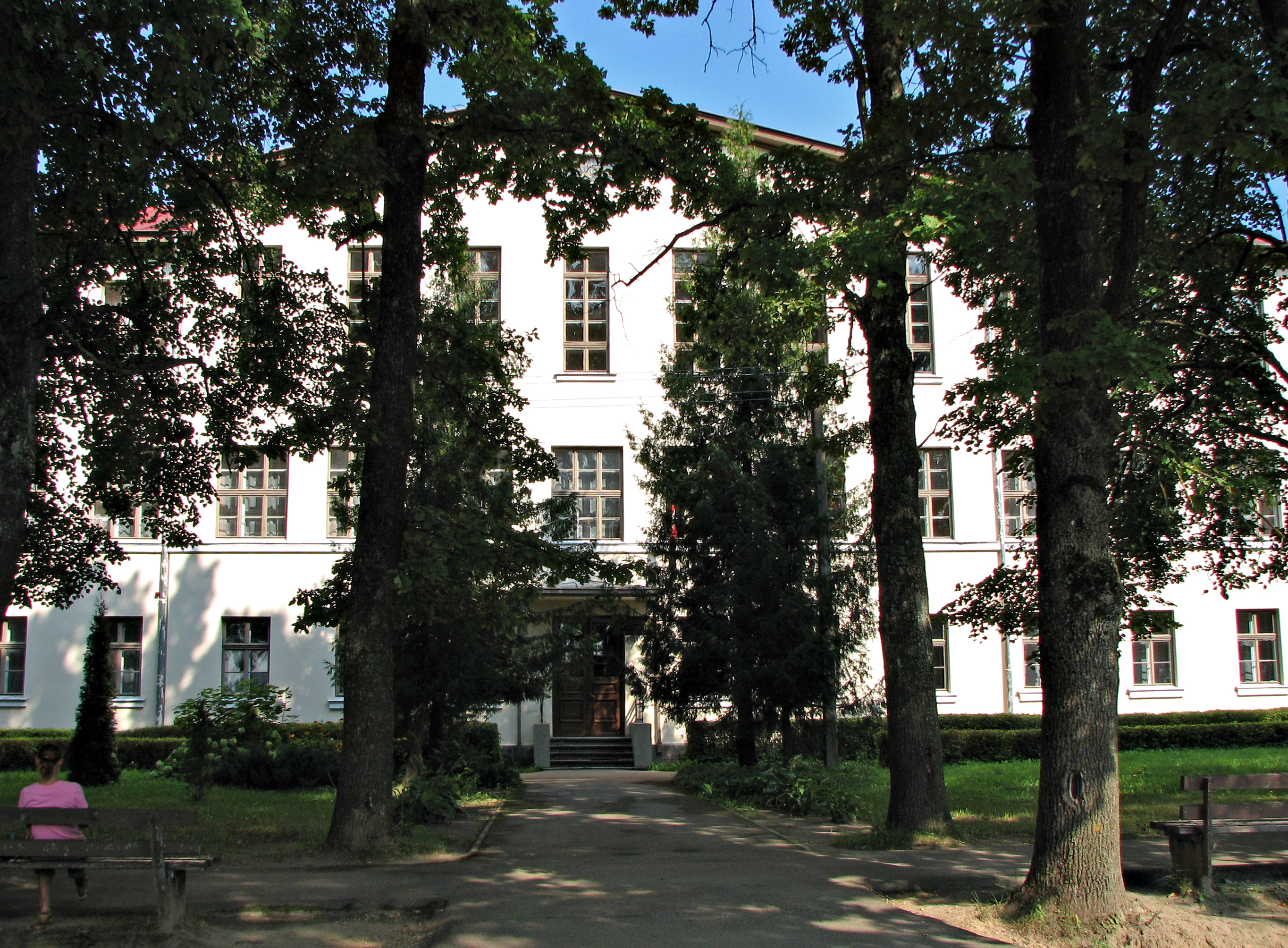 Saliena school